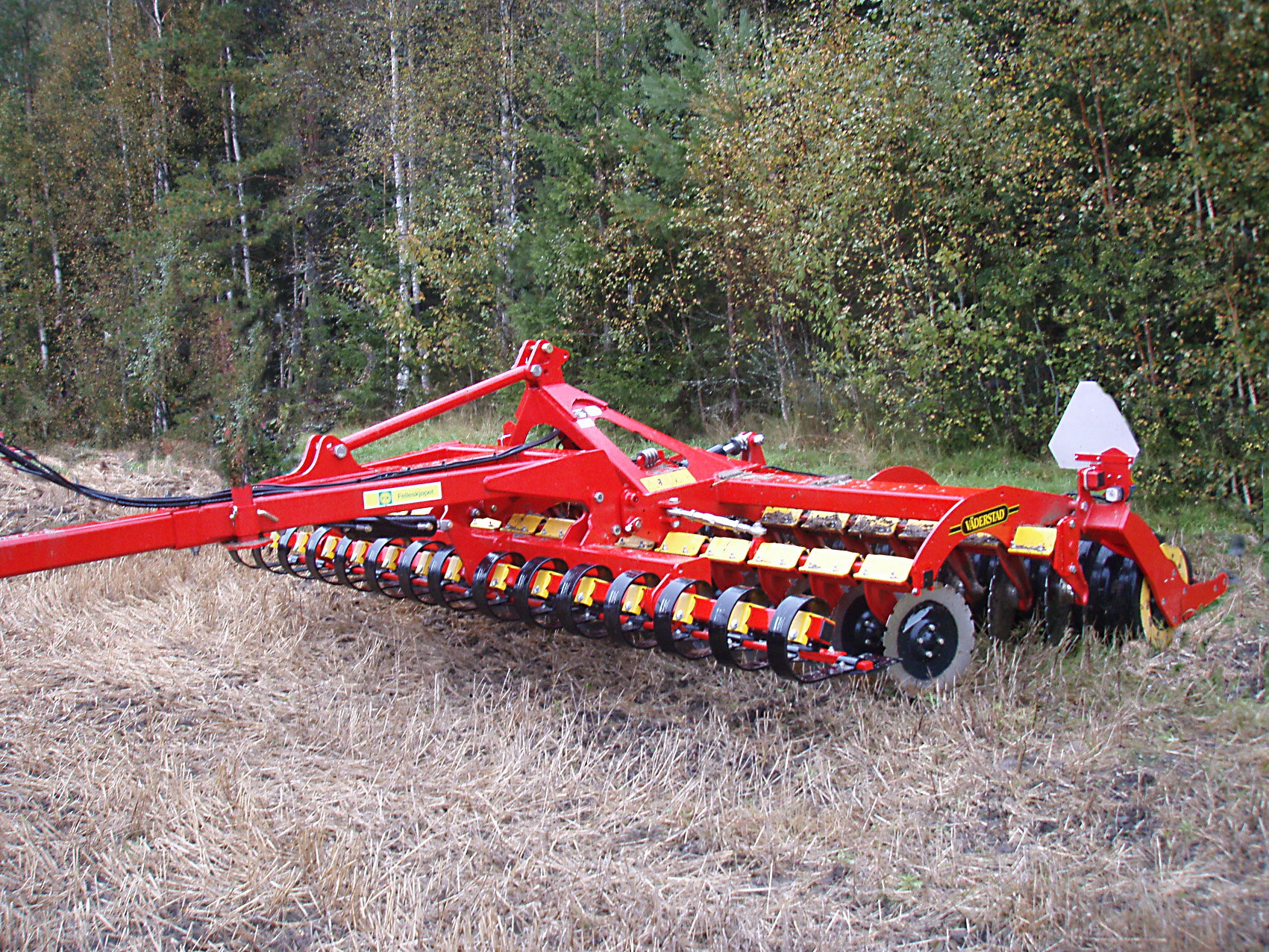 Väderstad Disc harrow